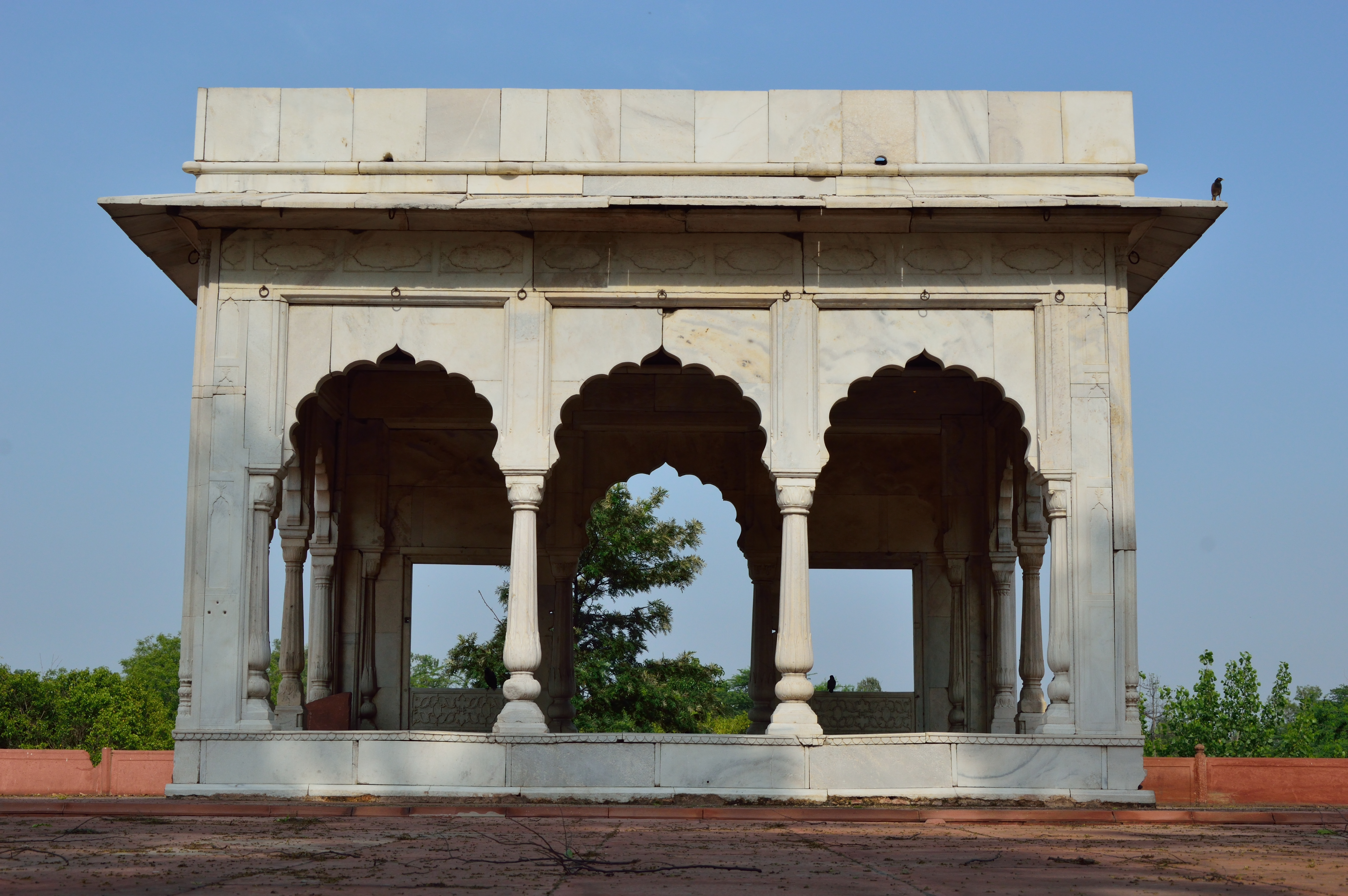 The Red Fort also known as Lal Qil'ah, or Lal Qila, meaning the Red Fort, located in Delhi, India is a UNESCO World Heritage Site. This photograph has been uploaded during the 'Wiki Loves Monuments 2014' from India.